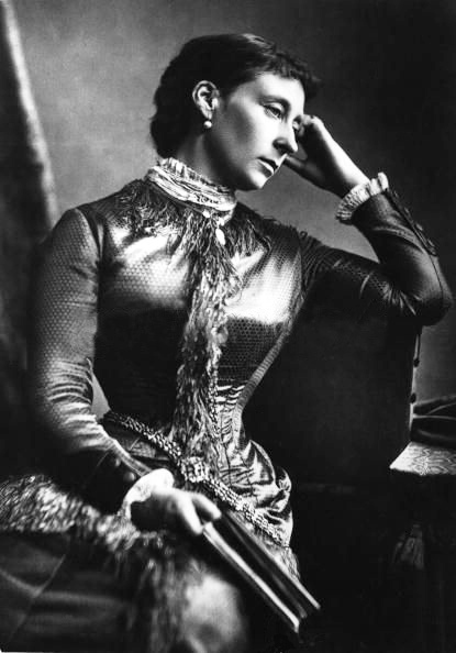 Princess Alice (later Grand Duchess Louis IV of Hesse) by Alexander Bassano. In the public domain because of its age.